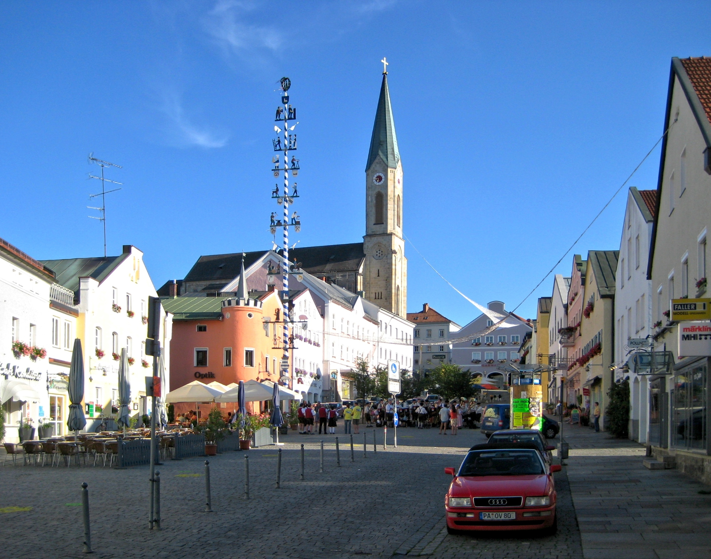 Marktplatz of Waldkirchen